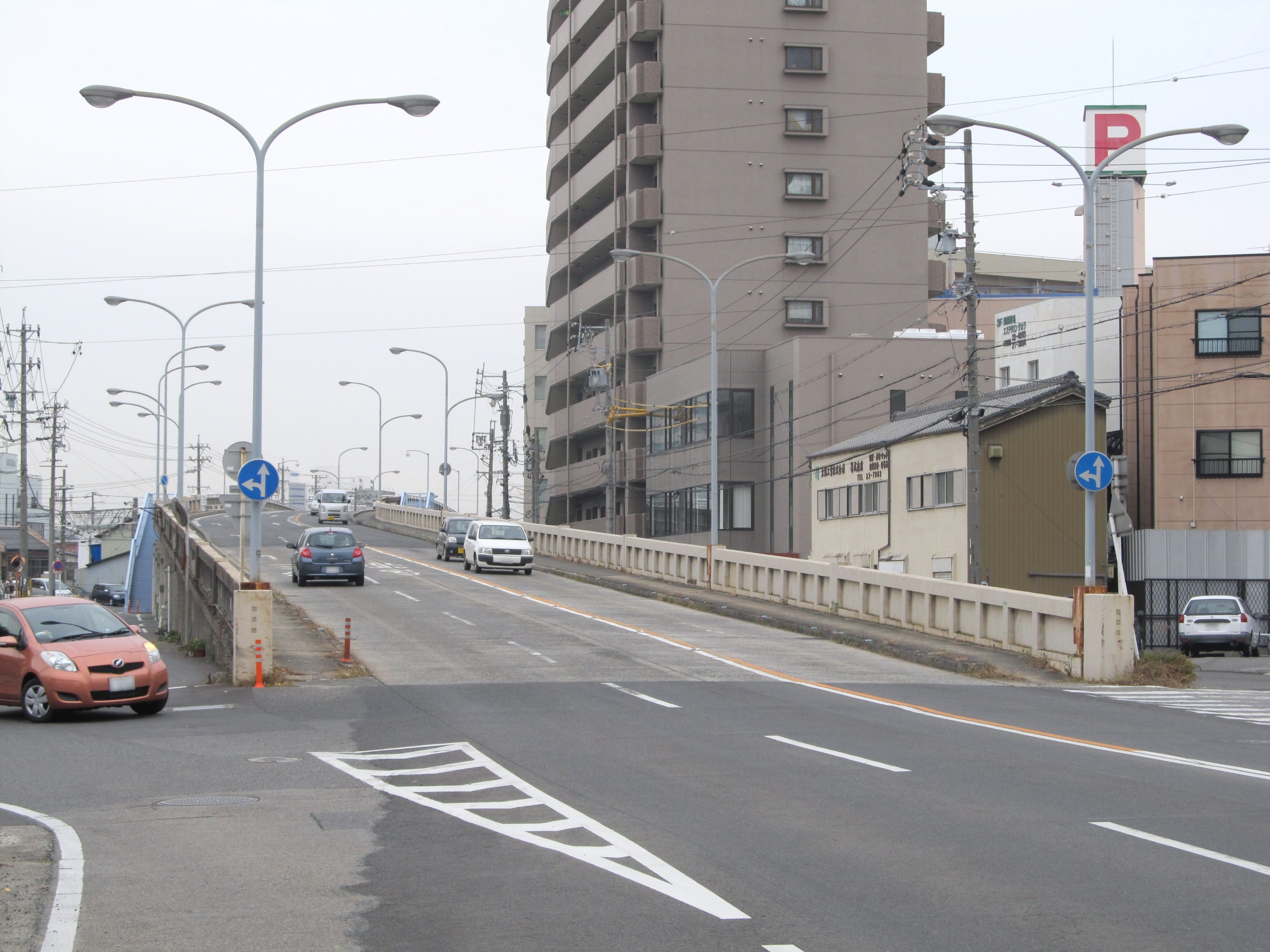 Kariya Overpass